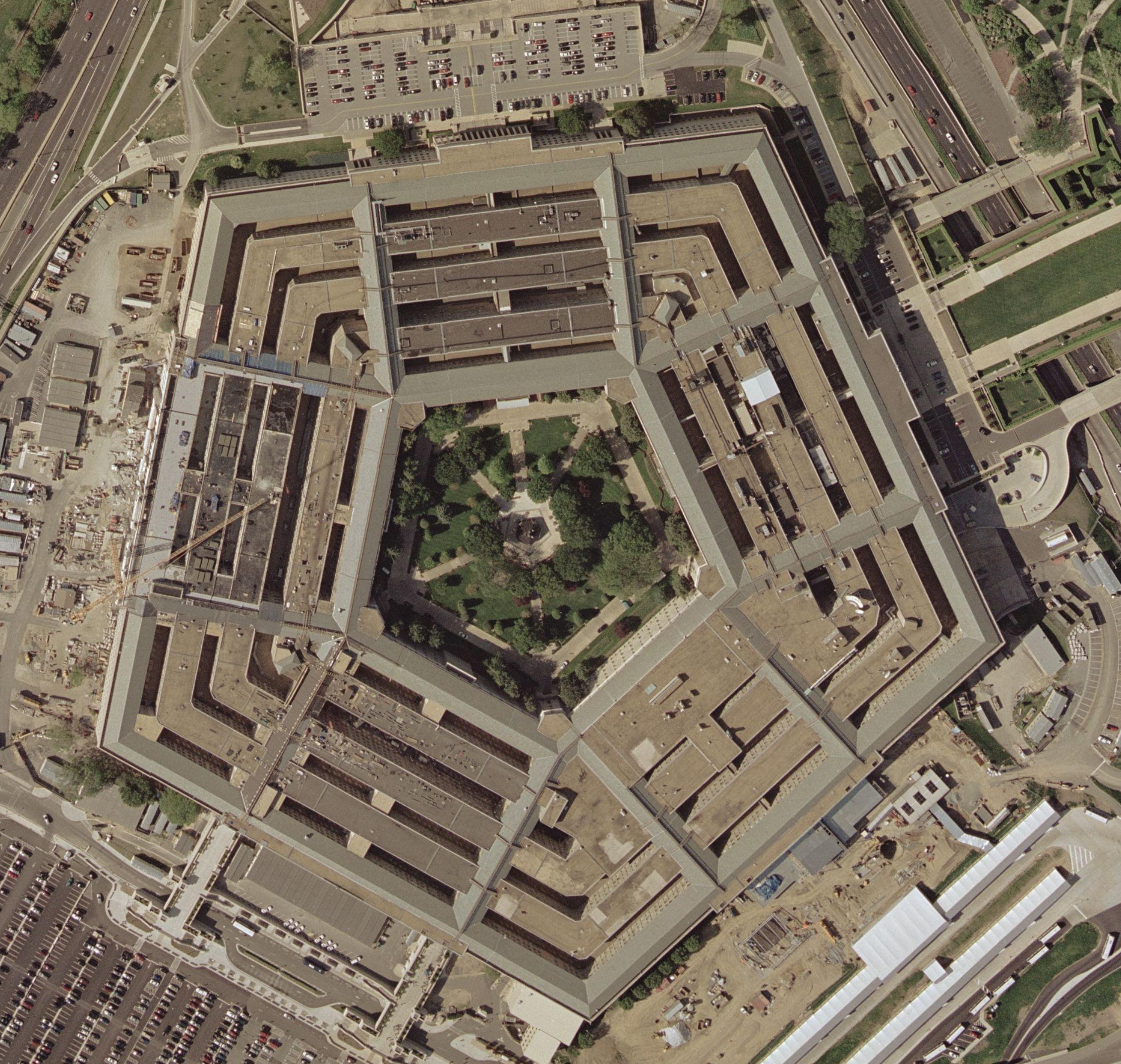 Satellite image of the Pentagon. The reconstruction of the section damaged in the September 11 terrorist attacks is visible on the building's west (left) side; the diagonal line is a construction crane.